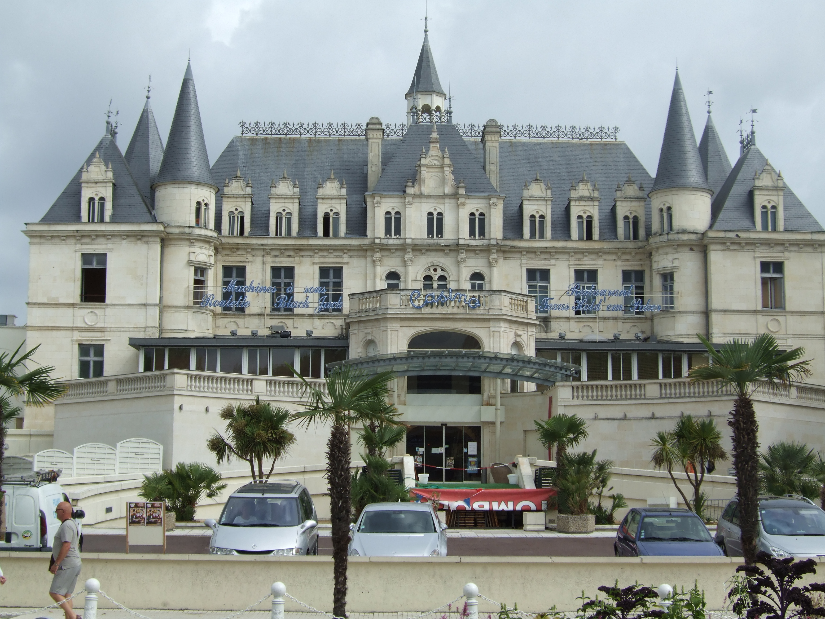 The Casino of Arcachon